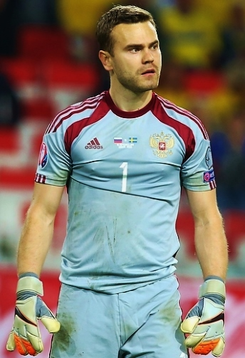 Igor Akinfeev